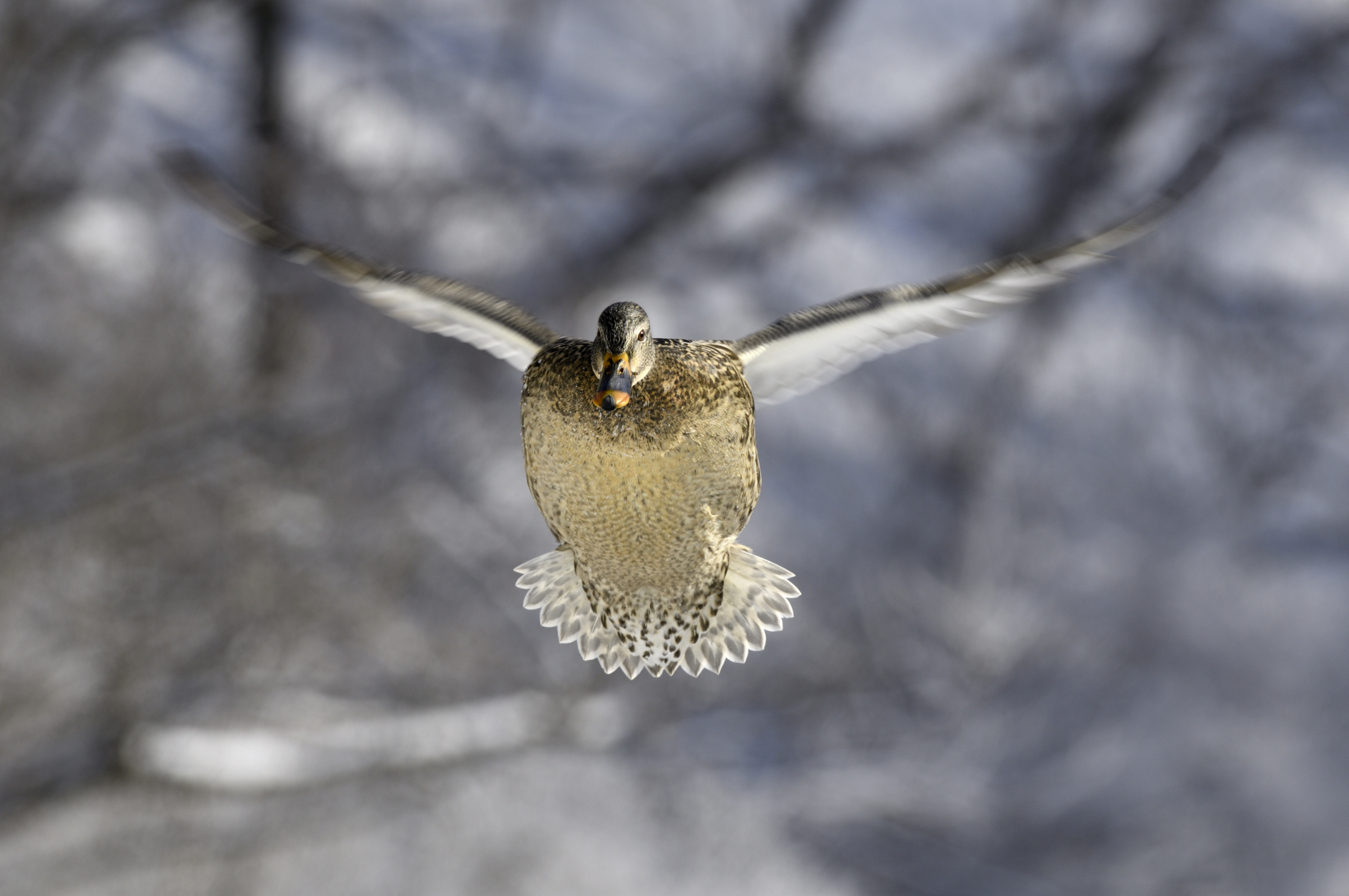 winter scene of duck